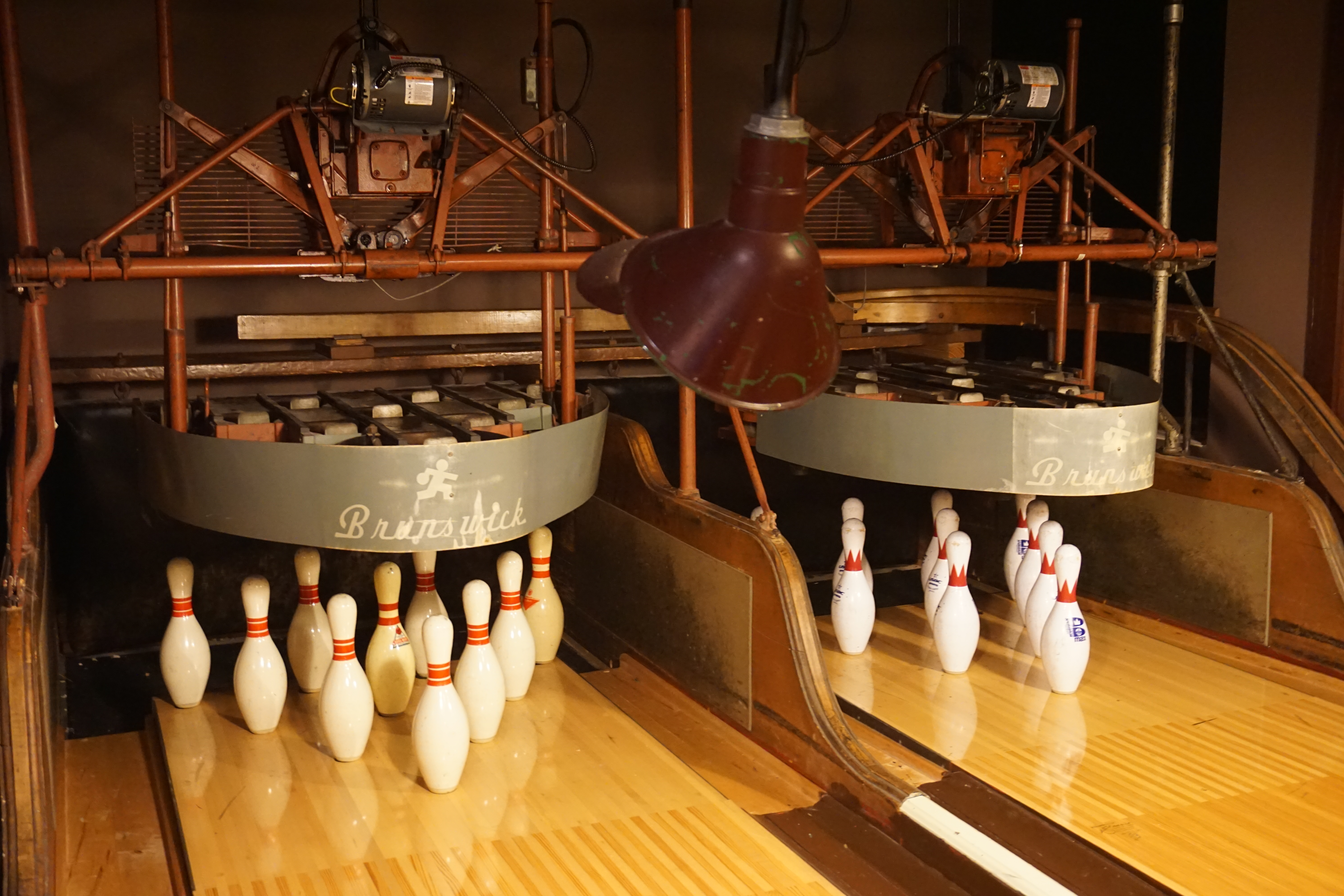 Brunswick semi-automatic pinsetters at the International Bowling Museum and Hall of Fame in Arlington, Texas (United States).